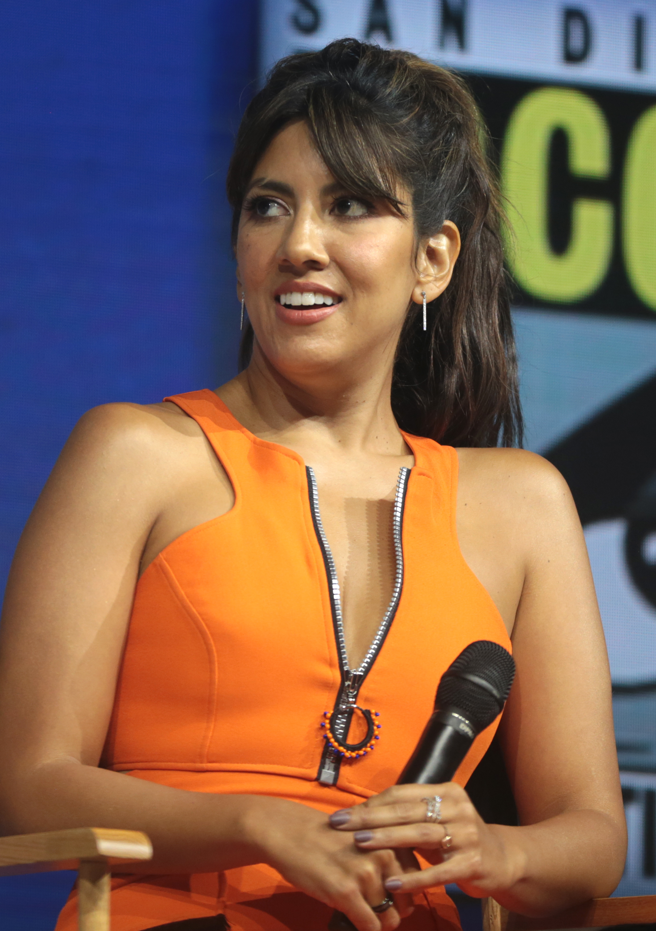 Stephanie Beatriz speaking at the 2018 San Diego Comic-Con International in San Diego, California.